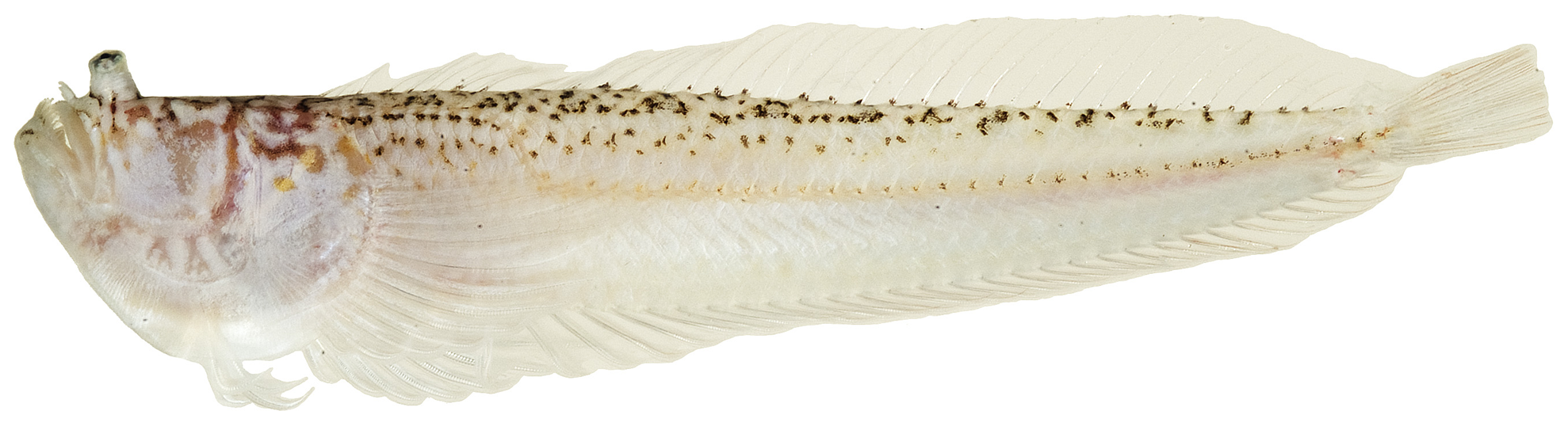 Dactyloscopus tridigitatus Gill, 1859—sand stargazer, 50.8 mm SL. Photo by JT Williams.